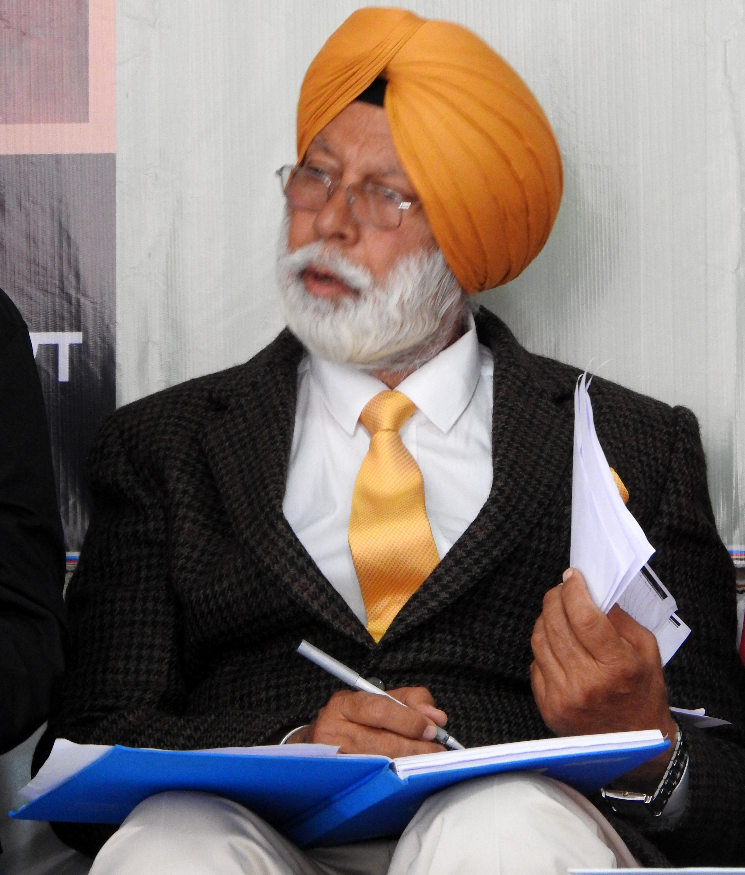 Darshan Butter ,Punjabi language poet,Punjab,India